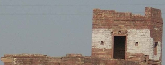 Mugal Gadhi Rudawal